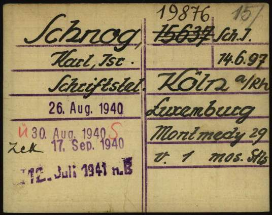 Registration card of Karl Schnog as a prisoner at Dachau Nazi Concentration Camp. The red “S” penciled on the left indicates Schnog's transfer to Sachsenhausen. Stamped “n.B” also on the left indicates Schnog's transfer to Buchenwald.